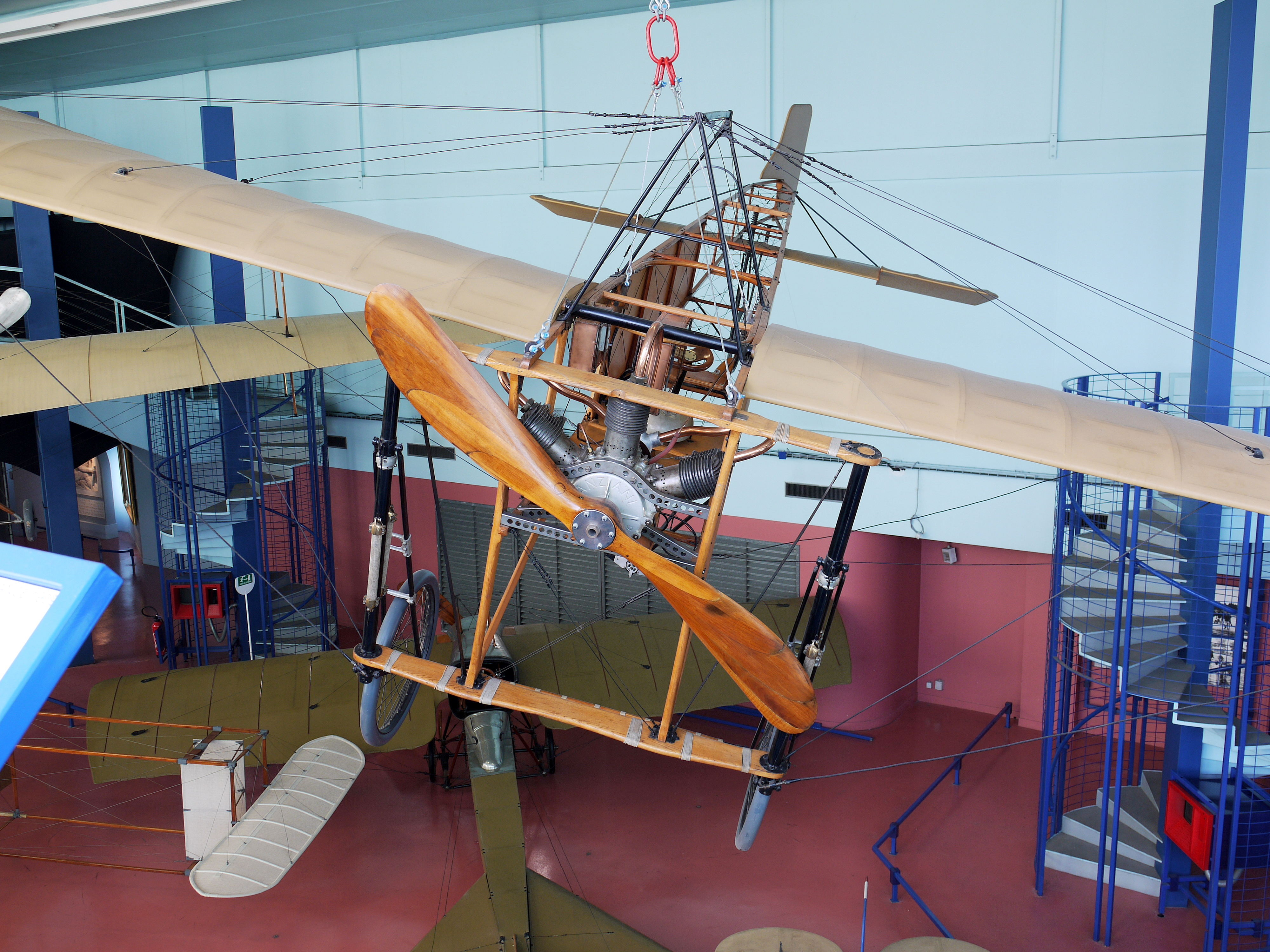 Blériot XI with Anzani engine, Museum of Air and Space Paris, Le Bourget (France)